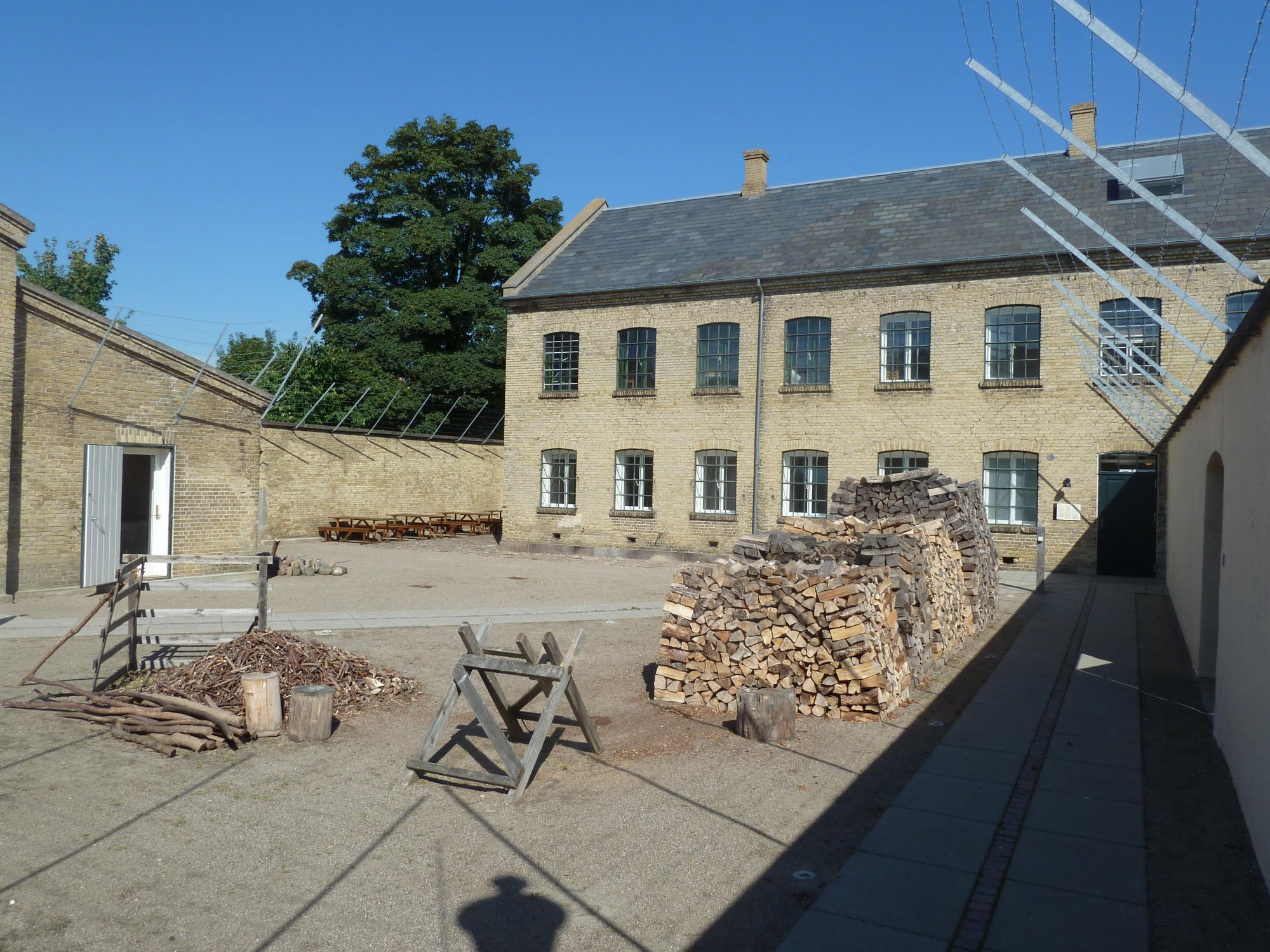 The Viebæltegård Welfare Museum in Svendborg, southern Funen, Denmark